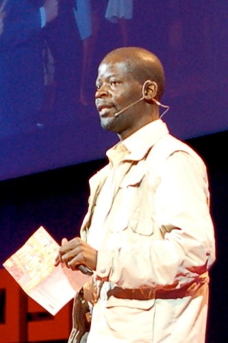 James Shikwati, Kenyan economist, at the TEDGlobal 2007